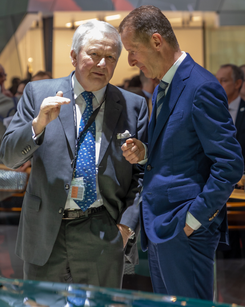 Wolfgang Porsche and Herbert Diess at Geneva International Motor Show 2019, Le Grand-Saconnex